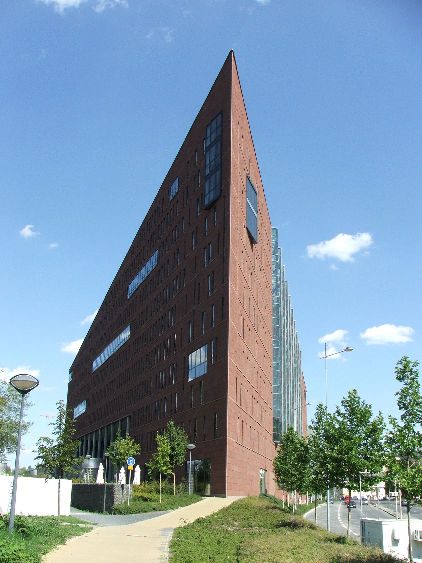 Modern architecture in Prague. Danube House, populary called Titanic, part of business complex River City Prague, in Prague- Karlín (Czechia). Built in 2003.